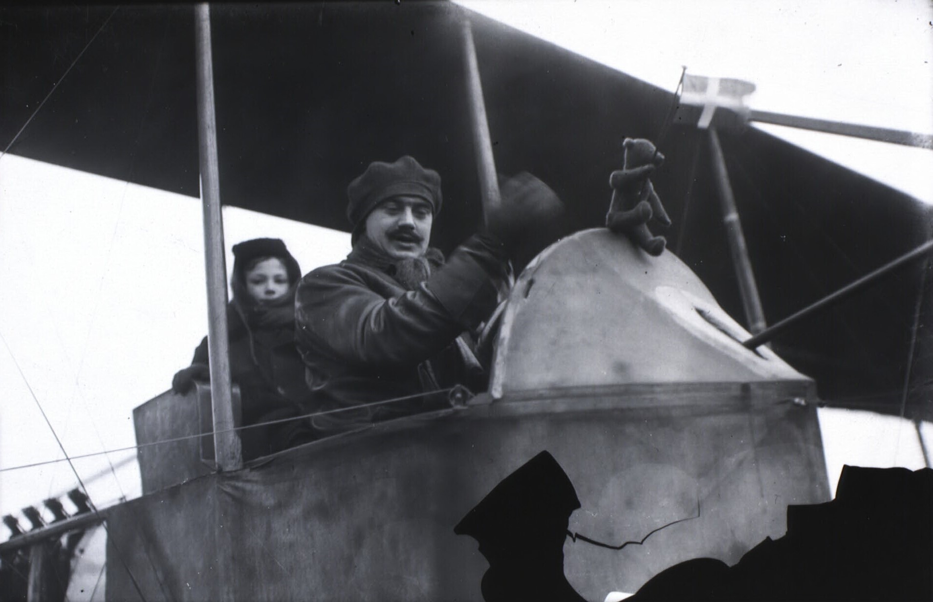 Danish airplane pioneer Ulrik Birch (1883–1913) in airplane